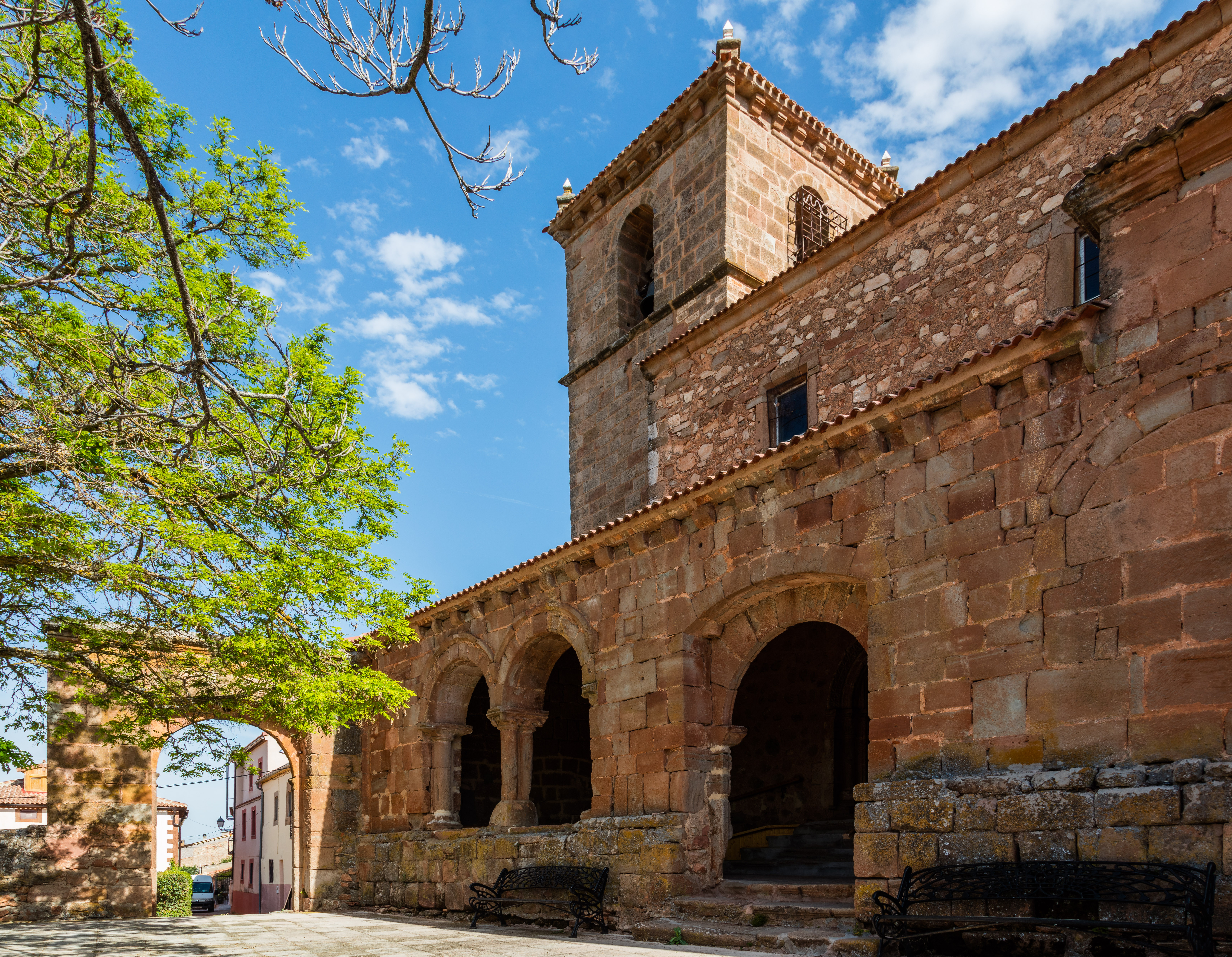 Church of St Cipriano, Montejo de Tiermes, Soria, Spain